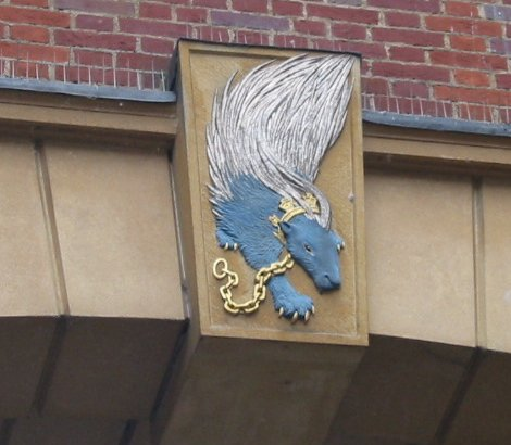 The keystone of an arch over a street in Cambridge is decorated with the mascot of Sidney Sussex College: a blue and gold porcupine.